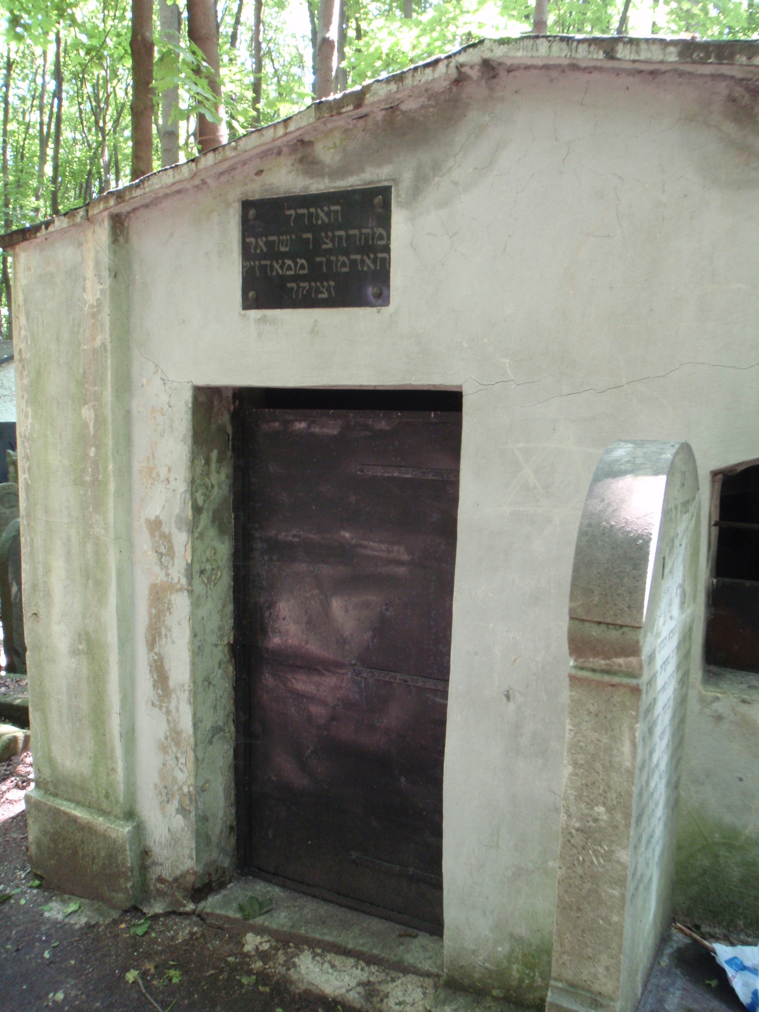 Ohel of Dęblin tzadiks - Izrael Taub from Modżyce - Dęblin and Jakub Dawid from Modżyce - Dęblin